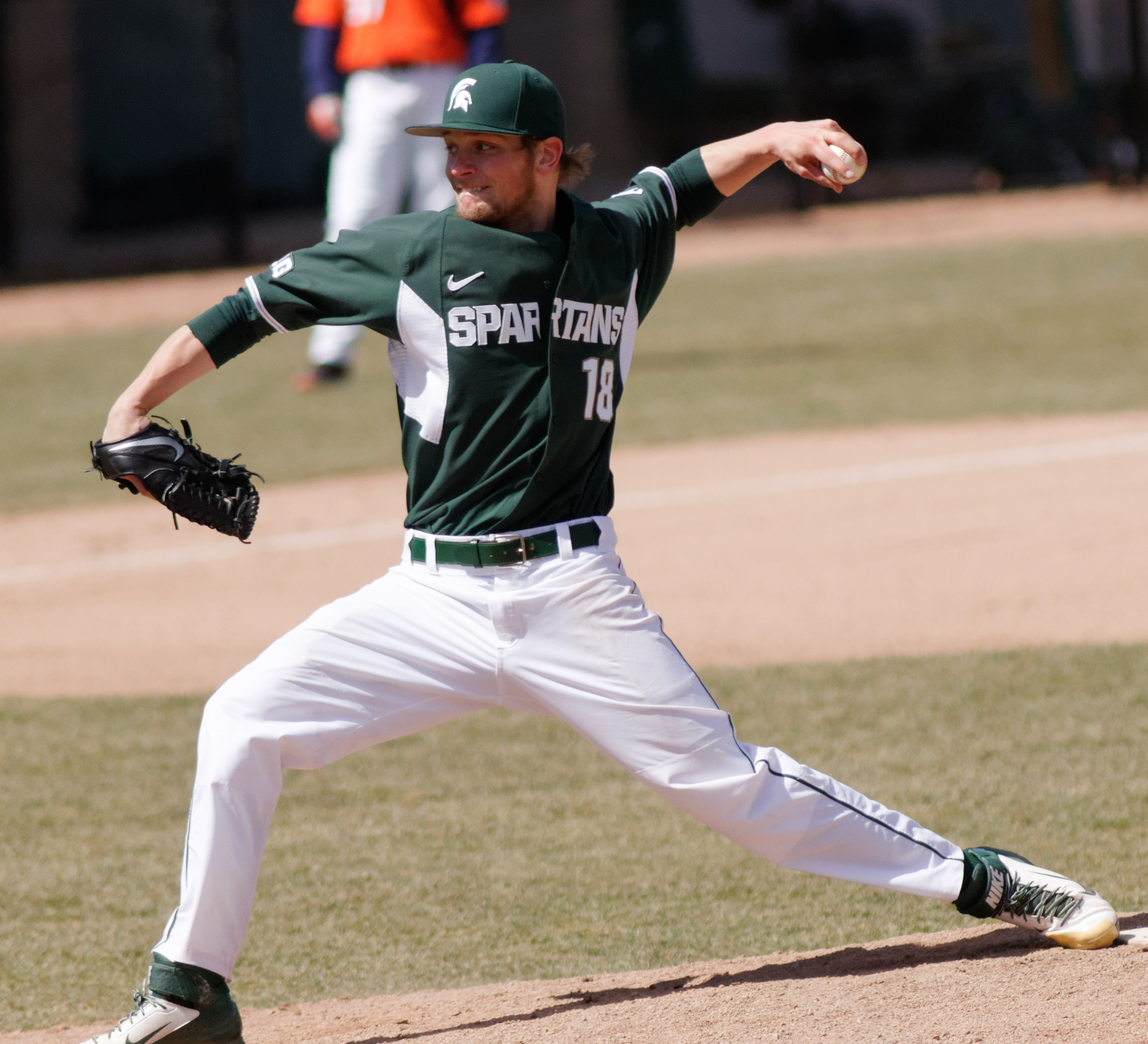 Anthony Misiewicz delivers a pitch for the Michigan State Spartans during a 2015 game at Drayton McLane Baseball Stadium at John H. Kobs Field in East Lansing, Michigan.